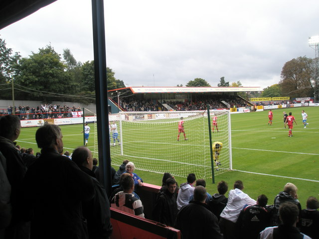 How did that happen?